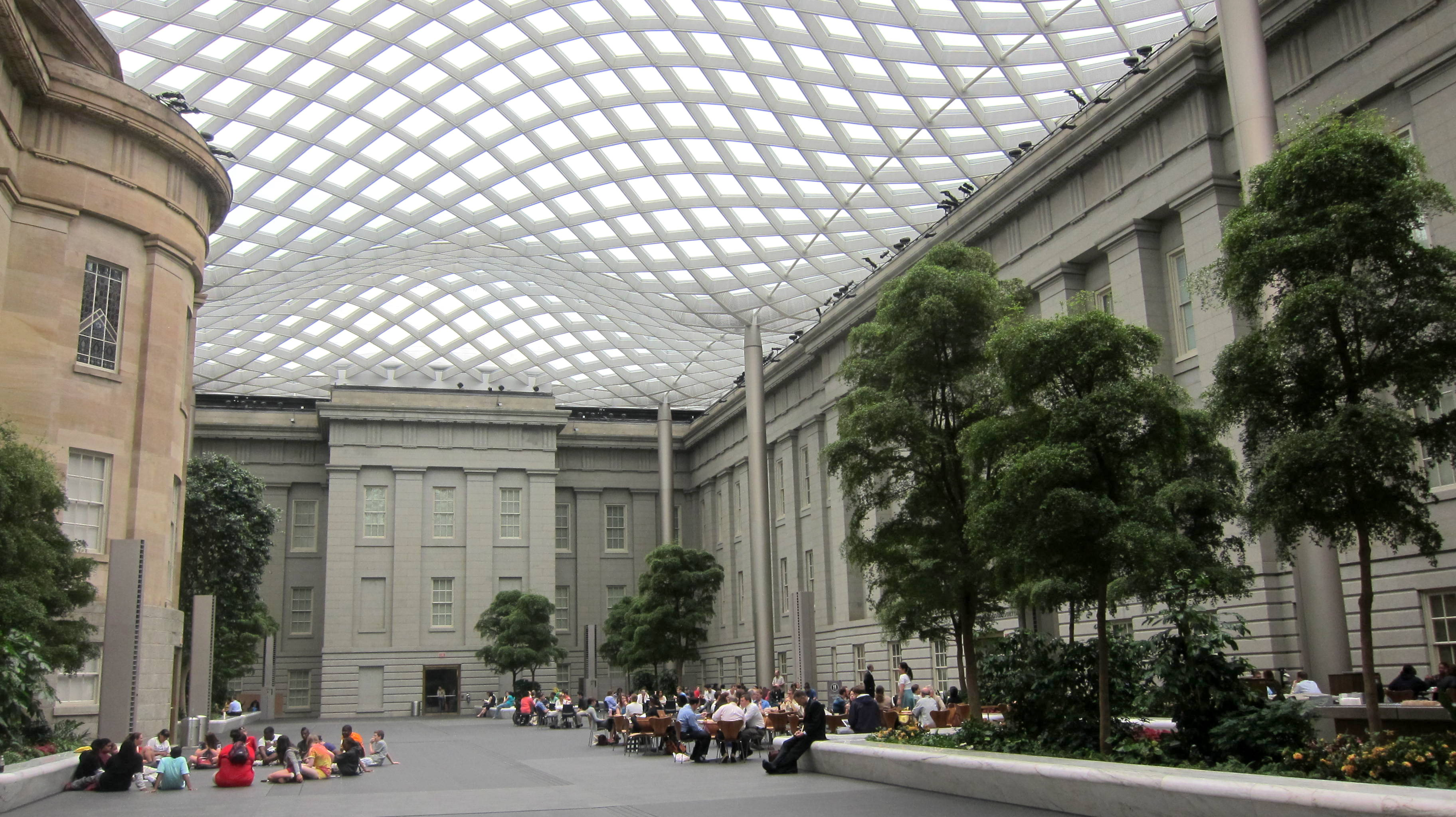 The Kogod Courtyard, designed by Foster and Partners and Buro Happold, located in the Old Patent Office Building in Washington, D.C.